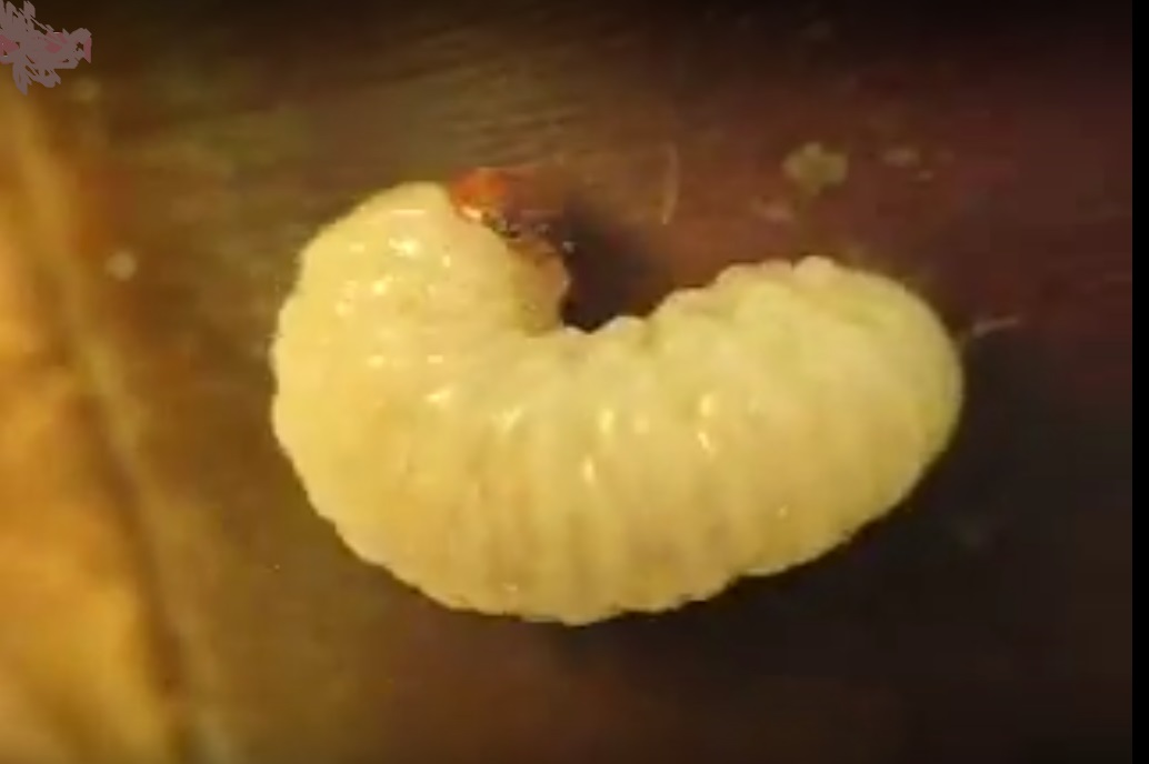 Fully grown larva of acorn weevil (Curculio) emerging from acorn of Chinese chestnut. 10/2/09, Pennypack Restoration Trust, Montgomery County, Pennsylvania, USA.